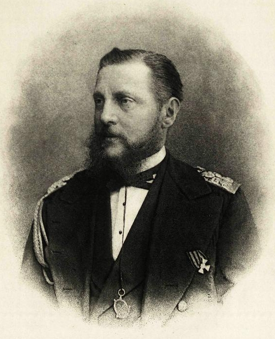 Grand Duke Konstantin Nikolayevich of Russia